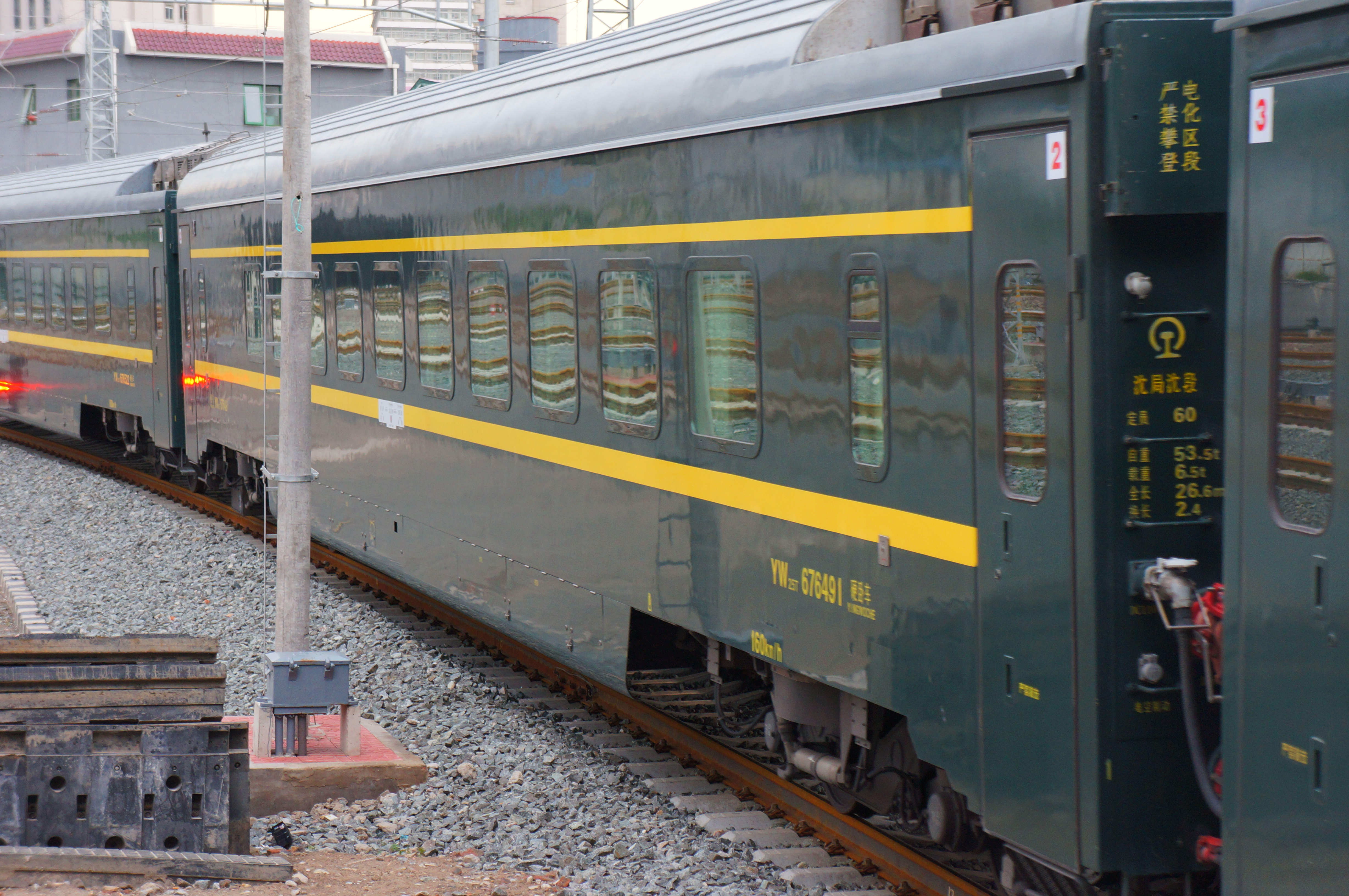 201606 QZYW25T-676491 by Shenyang Railway Bureau